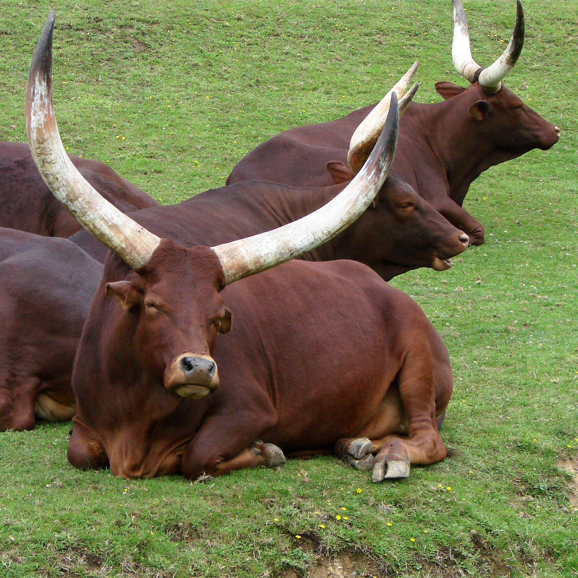 Watusi cattle in the Thoiry zoo.